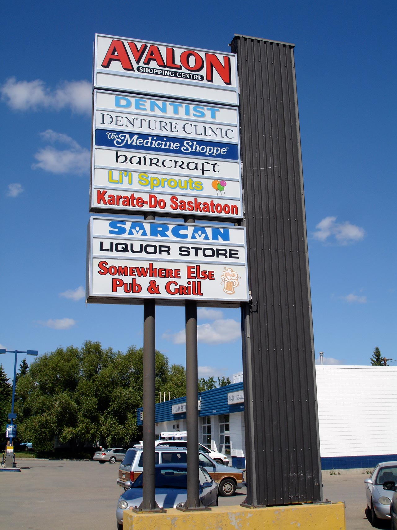 The Avalon Shopping Centre, a strip mall in the Avalon neighbourhood of Saskatoon, Saskatchewan, Canada.